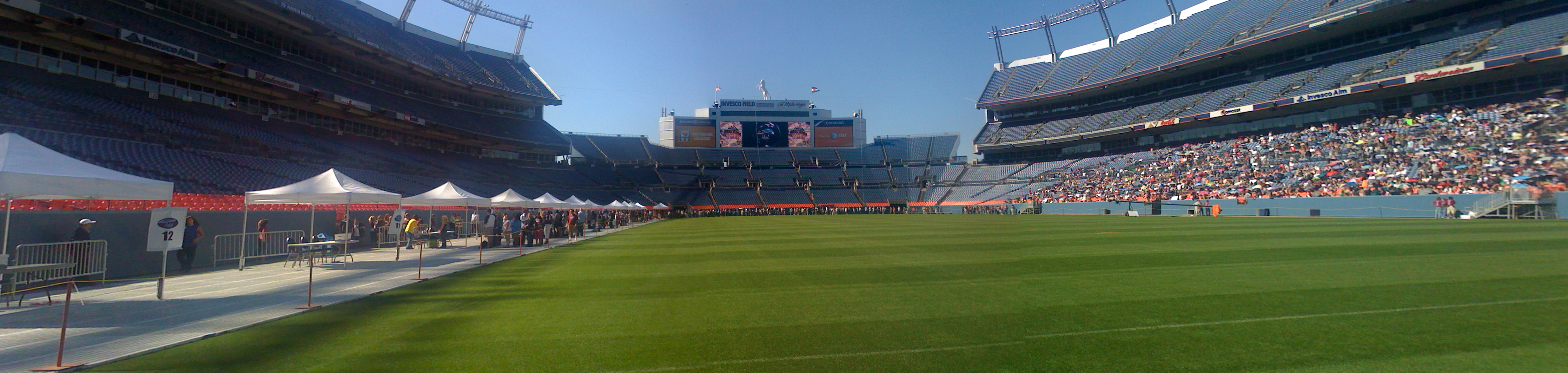 Panorama of the initial American Idol auditions in Denver, CO